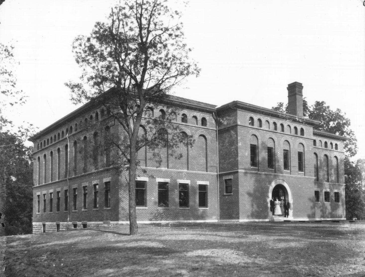 Persistent URL: Subject (TGM): Gymnasiums; Buildings; Universities and colleges; Location: Oxford, Ohio Four people at front door. Renamed Van Voorhis Hall in 1932 and razed in 1986.